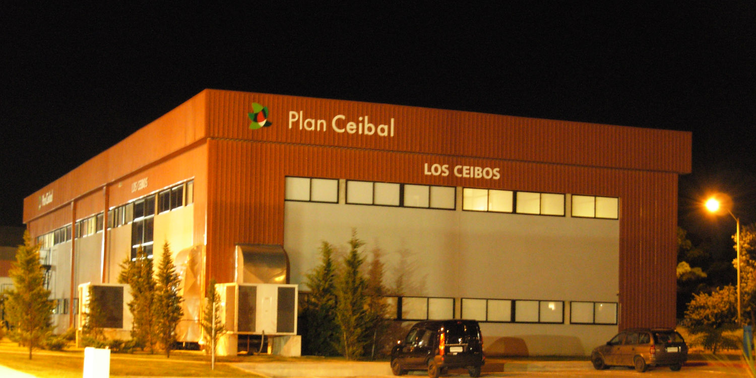 Edificio Los Ceibos, the Plan Ceibal office building, located at the Parque Tecnológico y de Eventos of the Laboratorio Tecnológico del Uruguay at Carrasco Norte, Montevideo.